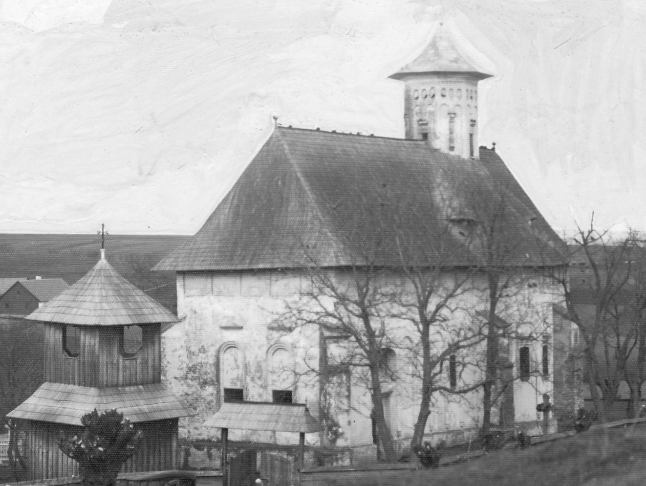 Church in Mănăstioara-Siret (image from the archive of the Metropolitan of Moldavia, 1936, free of copyright)